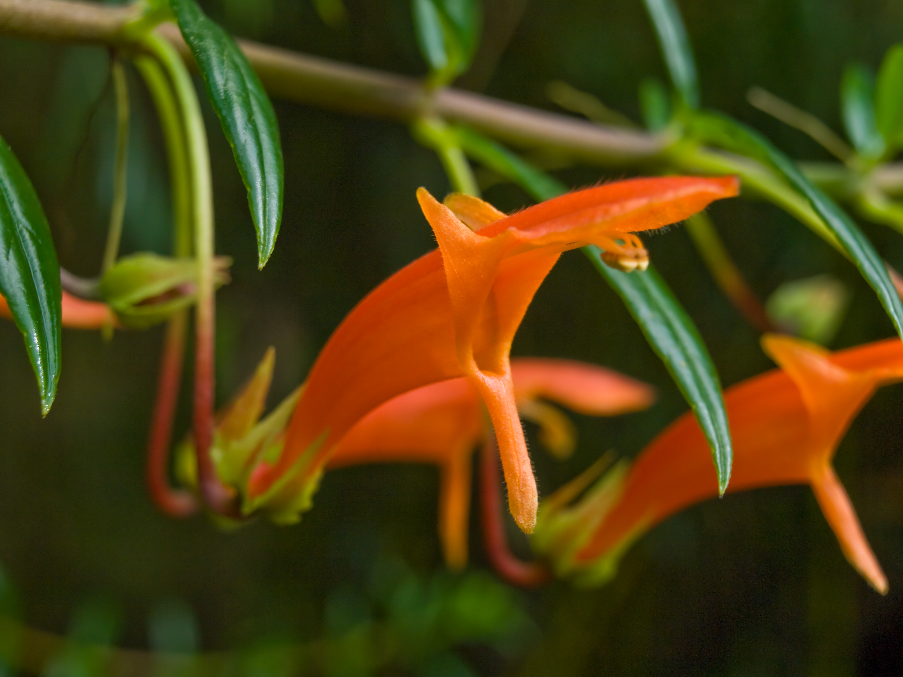 Fata Morgana greenhouse, Prague Botanic Garden in Troja